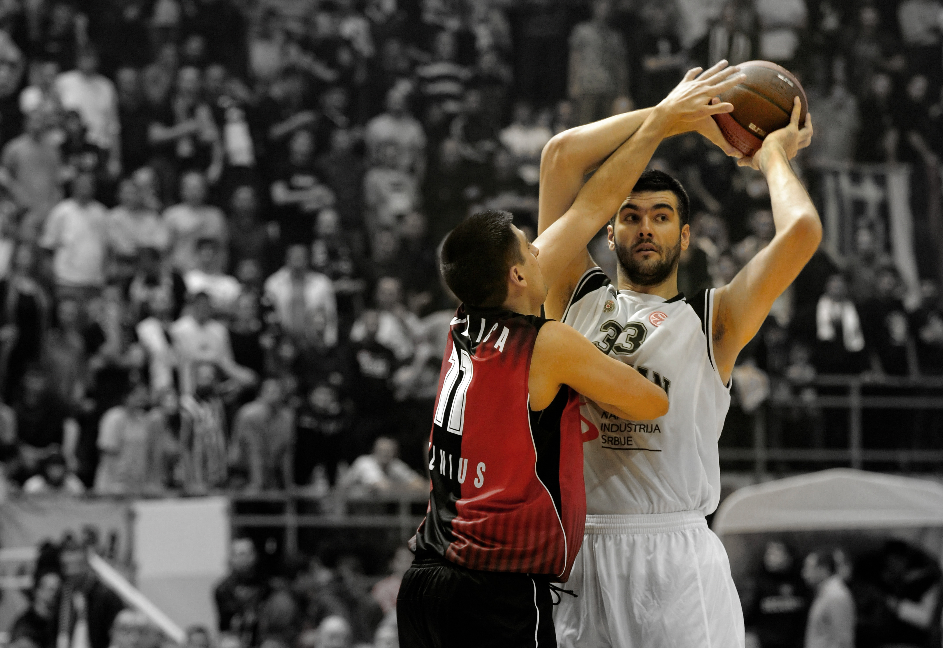 Milko Bjelica (left) as a BC Lietuvos Rytas player.